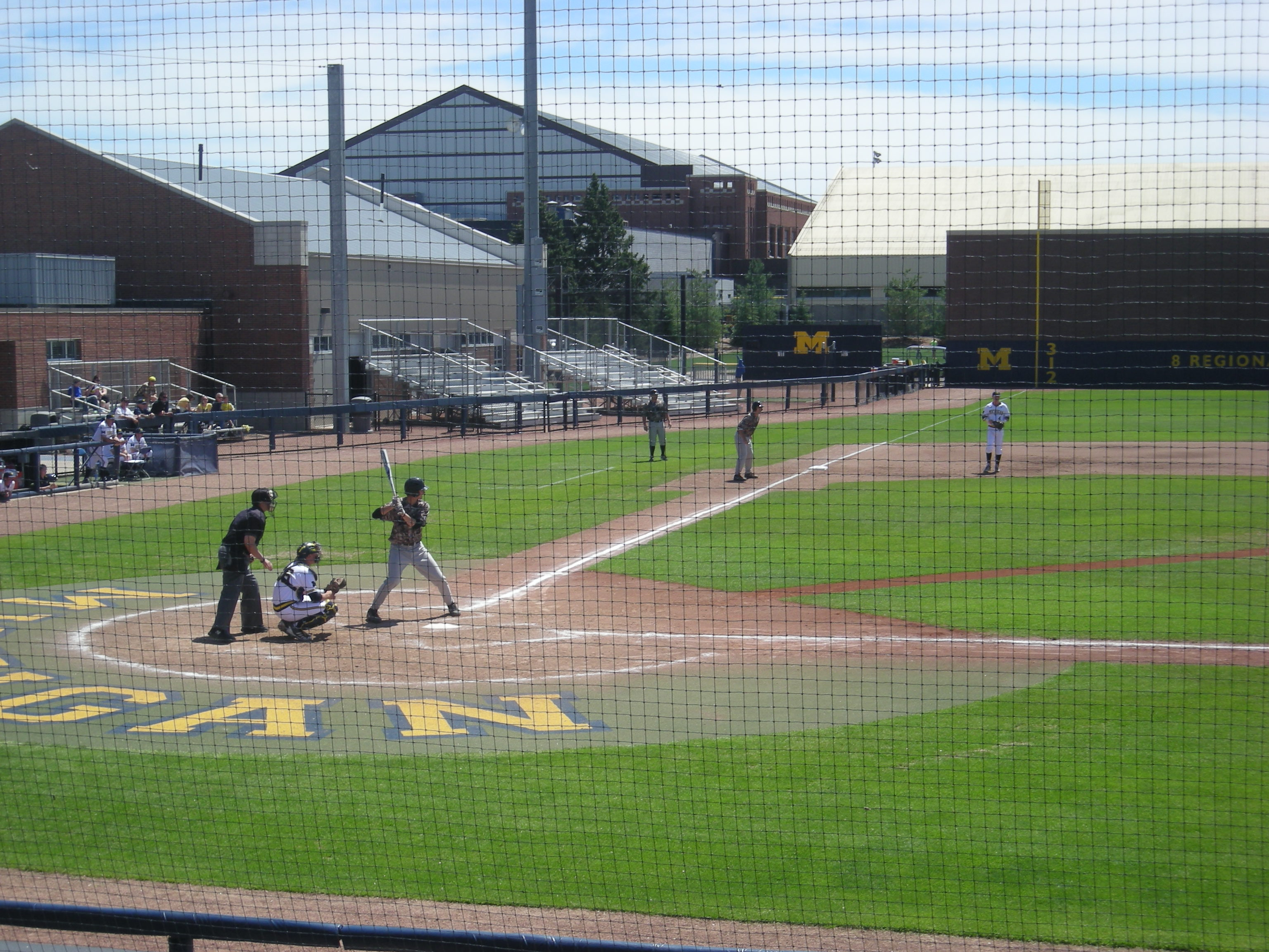 In-game action during the Iowa Hawkeyes vs. Michigan Wolverines baseball game at Ray Fisher Stadium in Ann Arbor, Michigan (United States). Michigan won 4–3.